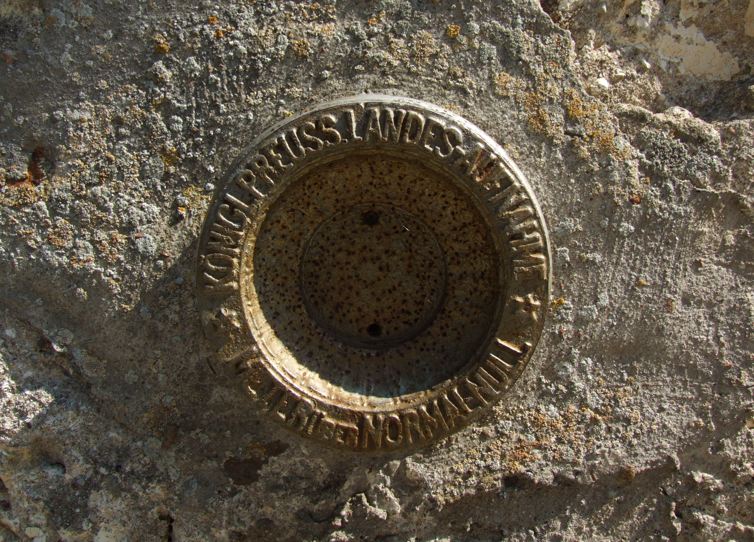 Benchmark in Straduny (Stradunen), Poland, Masuria